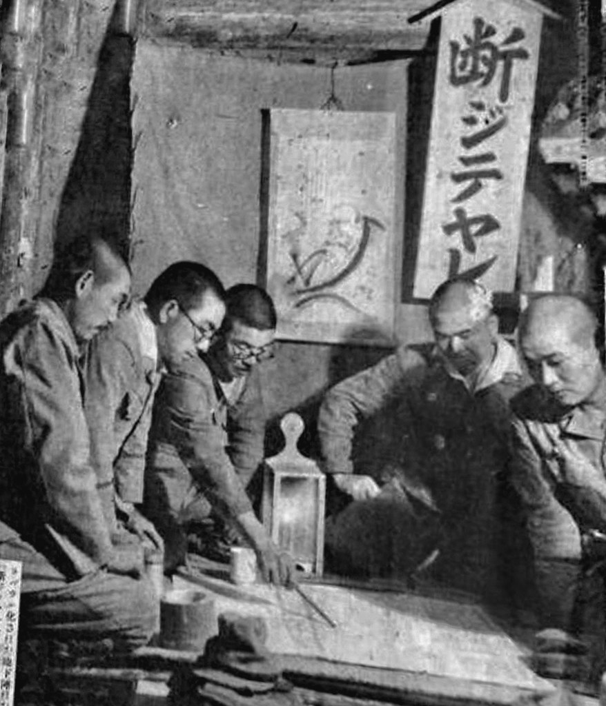 Generals Mitsuru Ushijima, Isamu Chō and other staff officers of the Thirty-Second Army in Okinawa, April 1945